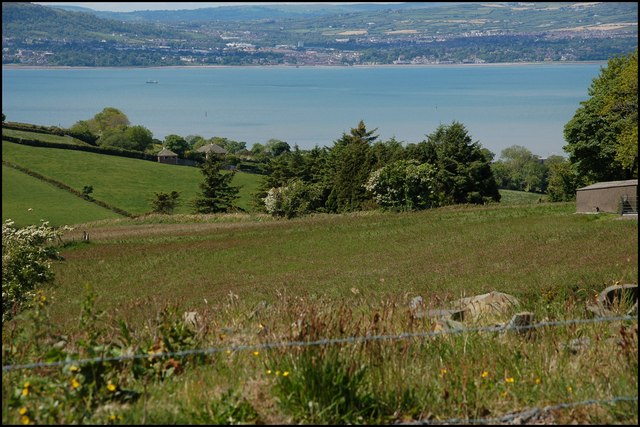 The Church Road near Holywood (2) See 447519. This is the view, approximately to the west, from the road, looking over to the Co Antrim side of Belfast Lough.